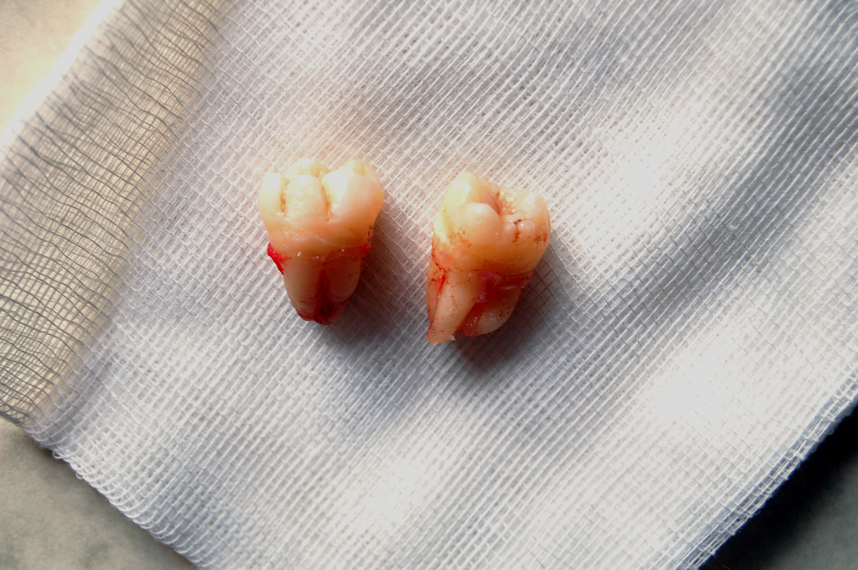 My upper and lower wisdom teeth, just extracted.